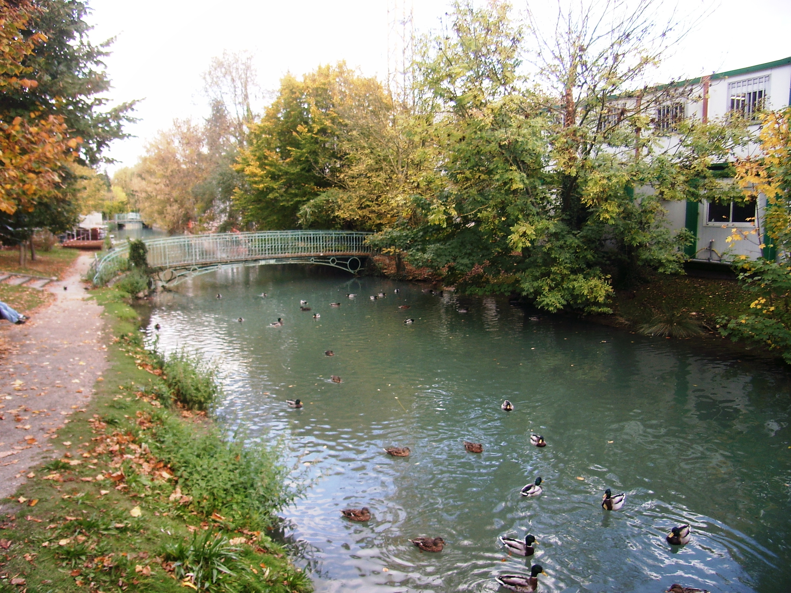 The Essonne at La Ferté-Alais. This stream's arm is a canal in T, in part underground to avoid the city centrum.